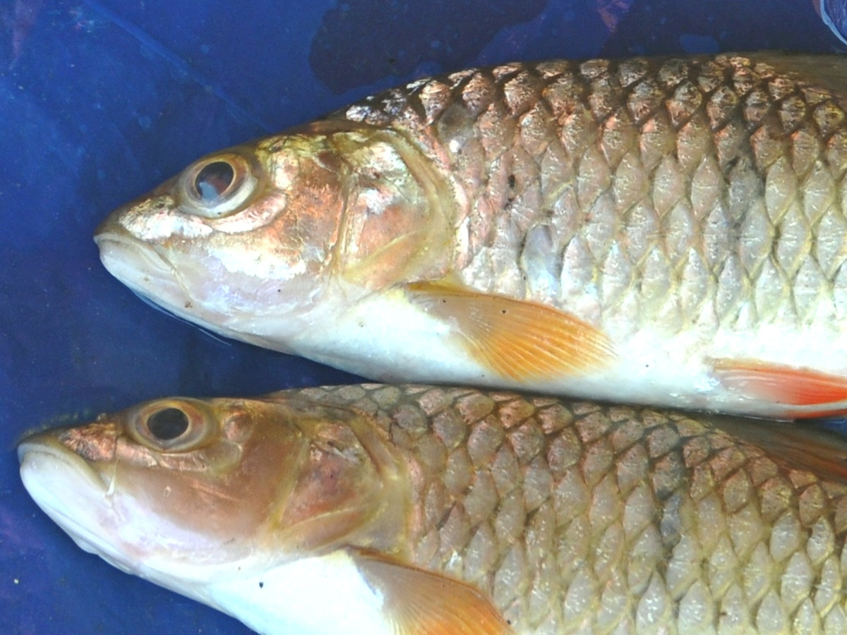 Hampala macrolepidota; anterior part. From Martapura, South Kalimantan, Indonesia.